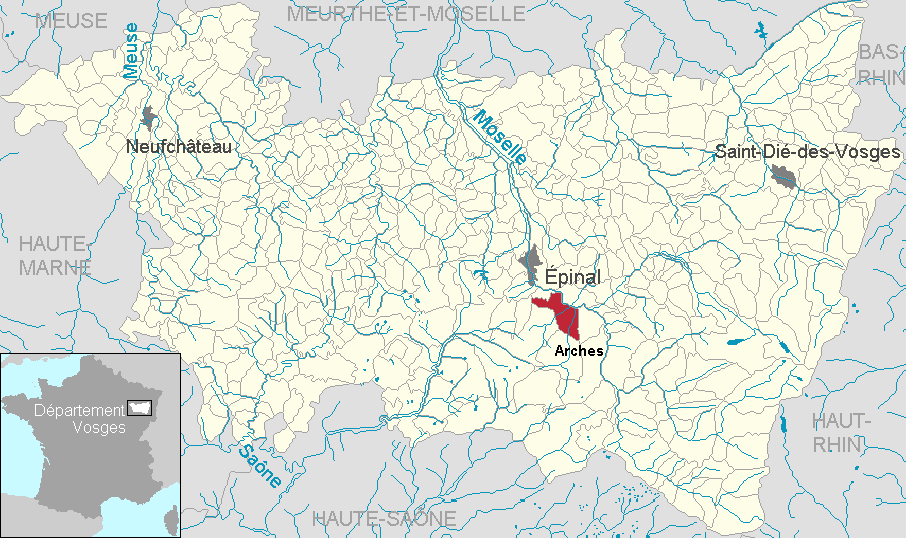 Arches in the department of Vosges, Lorraine, France